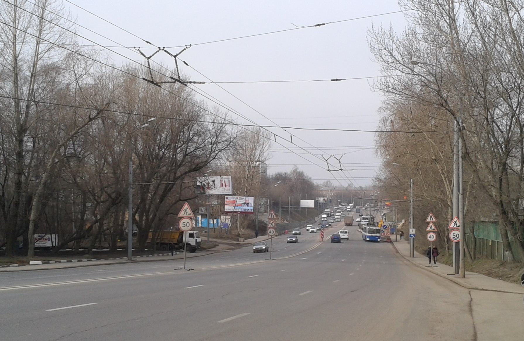 Khoroshovskoye highway, Moscow, Russia, 2014